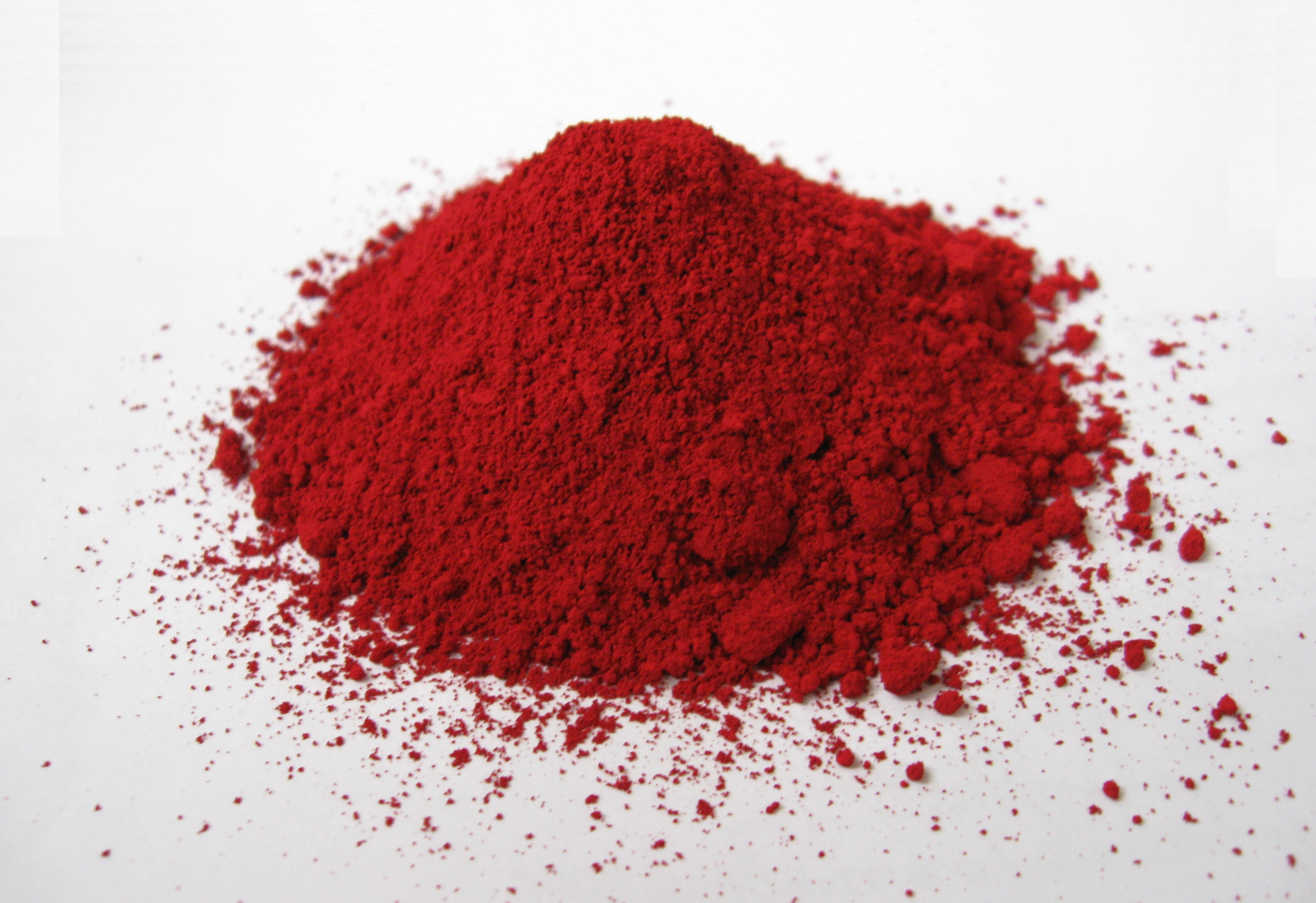 Sample of phenol red indicator